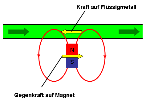 Principe of Lorentz force velocimetry (English version)